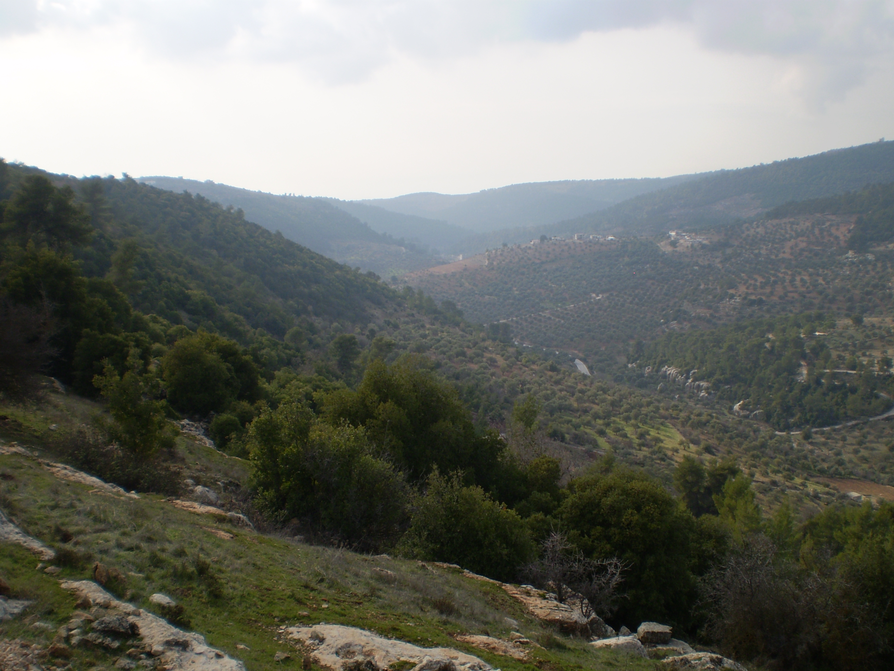 Um Jawze Valley to the southwest of the city of Sakib, Jordan